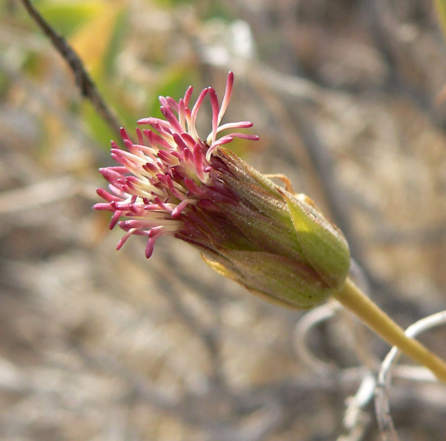 Brickellia atractyloides on limestone outcrops about 3 km south of Blue Diamond Road at Durango, southwest of Las Vegas, Nevada